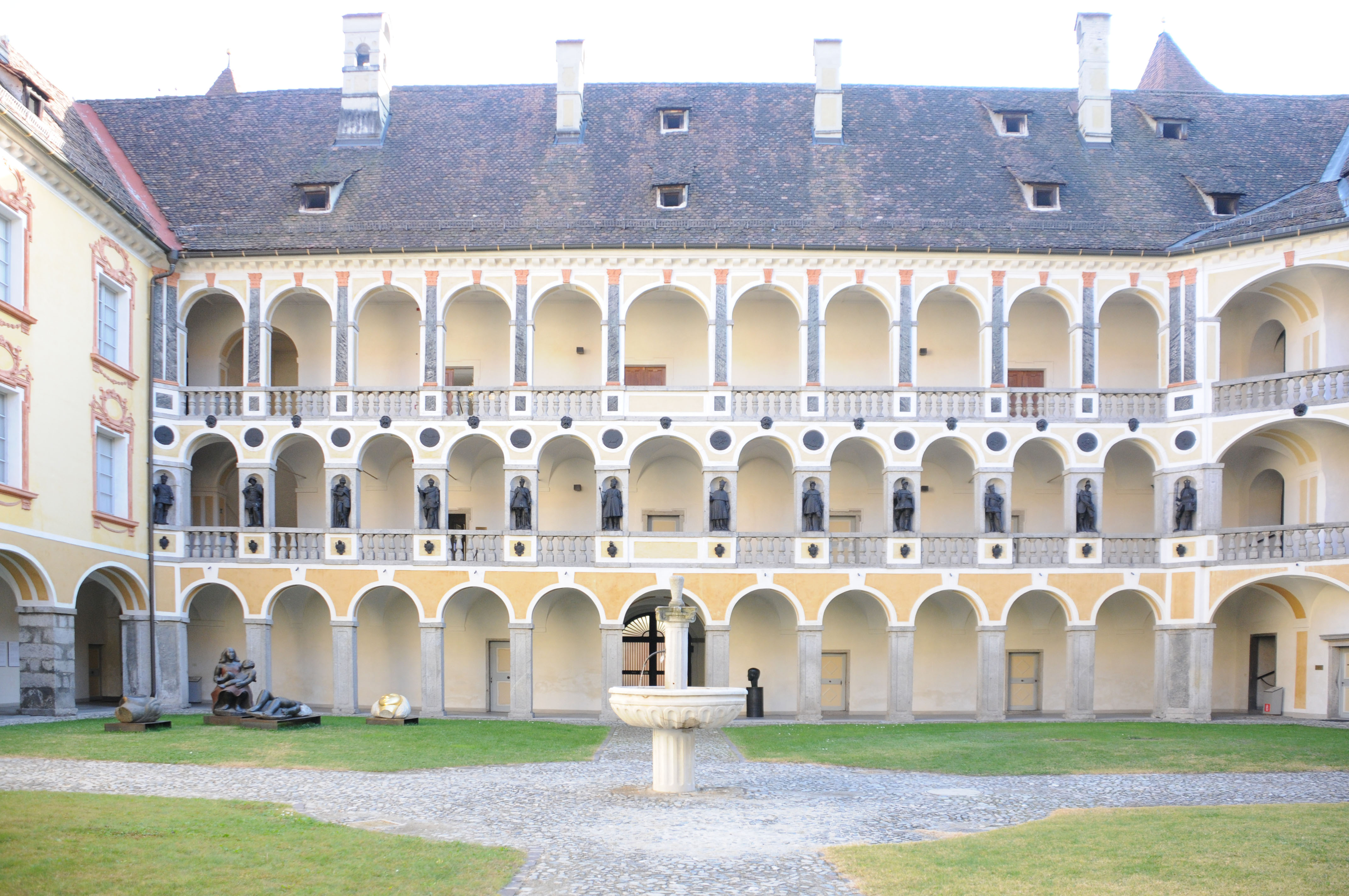 Hofburg in Brixen Italy. Serie of 12 austrian emperors by Hans Reichle